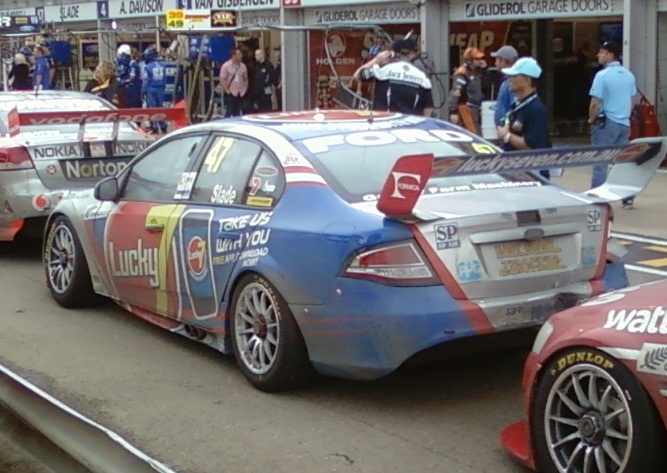 The Ford FG Falcon of Tim Slade at the 2011 Clipsal 500 Adelaide